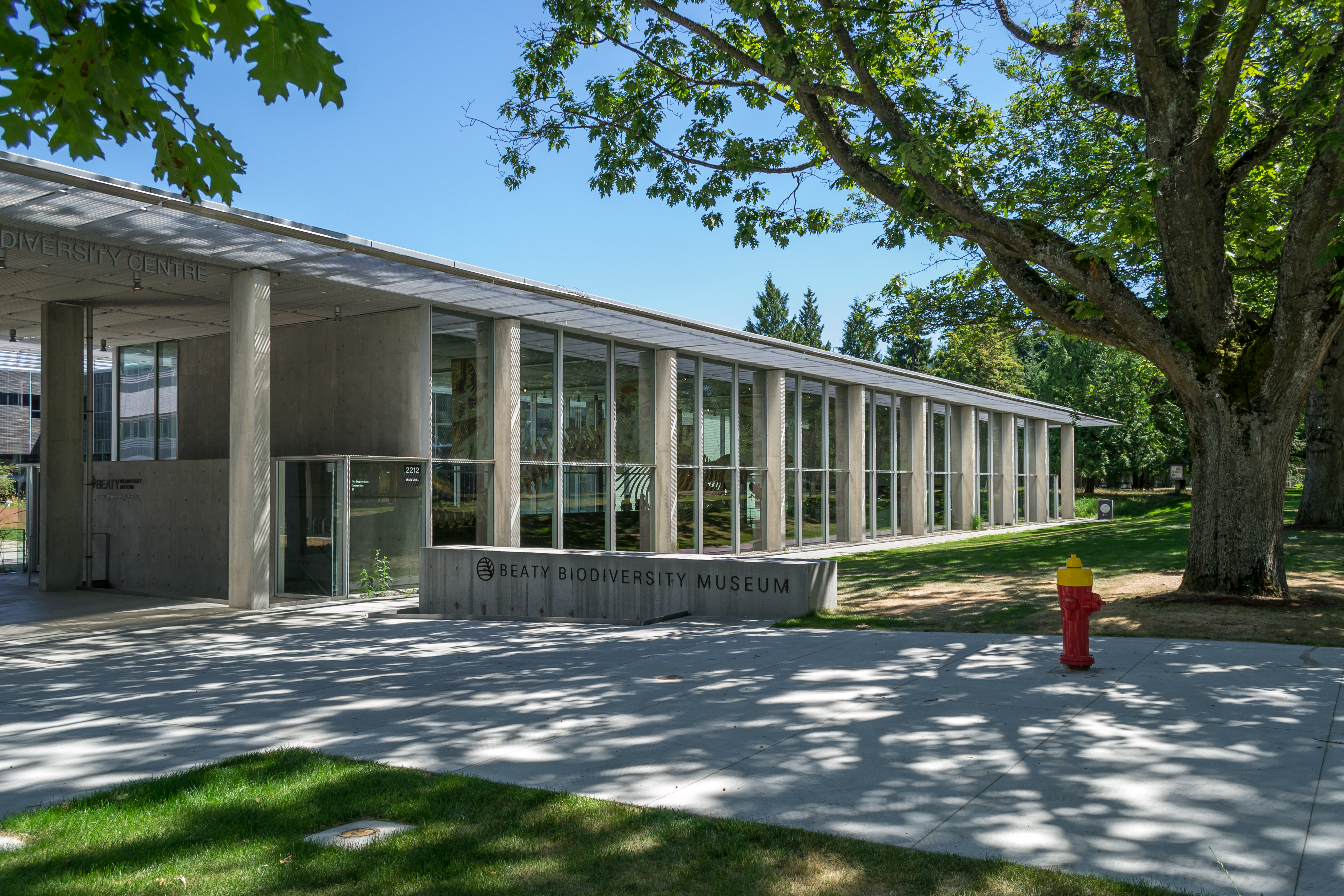 Beaty Biodiversity Museum at the University of British Columbia. Building finished in 2009, museum opened in 2010. 2212 Main Mall, Vancouver, BC, Canada